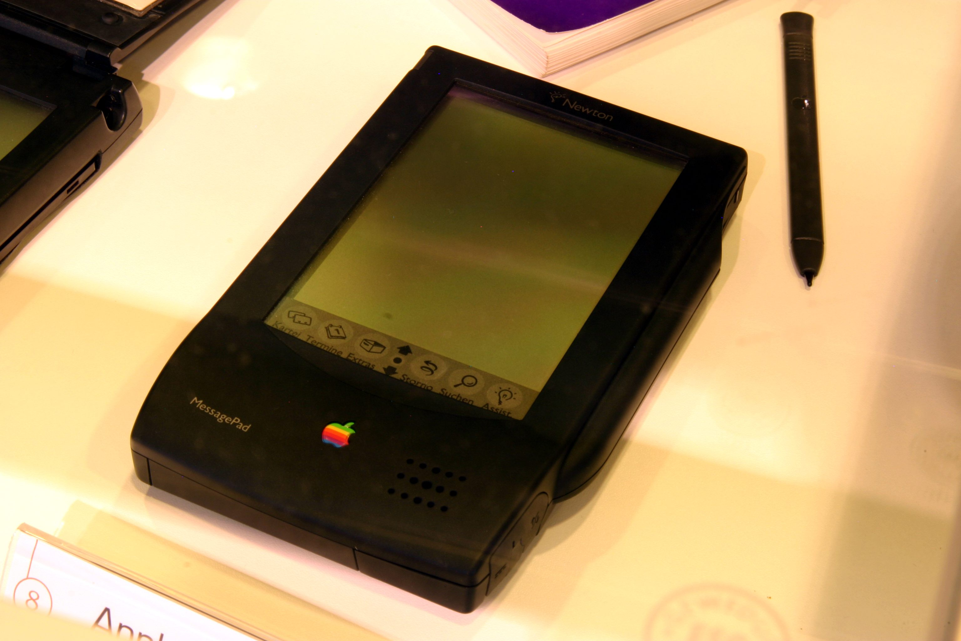 Apple Newton